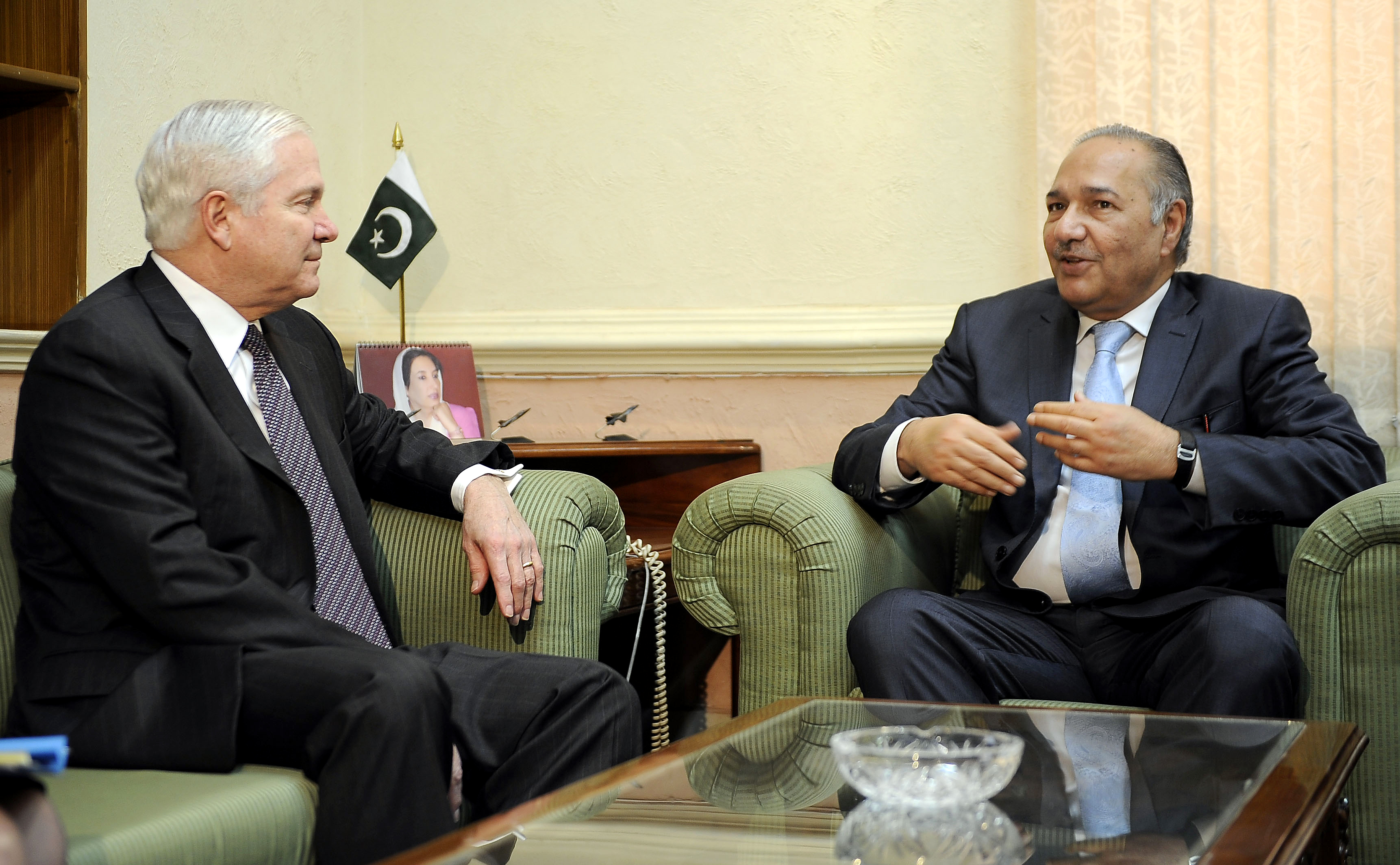 U.S. Defense Secretary Robert M. Gates talks with Pakistani Minister of Defense Ahmad Mukhtar in Islamabad, Pakistan, Jan. 21, 2010.